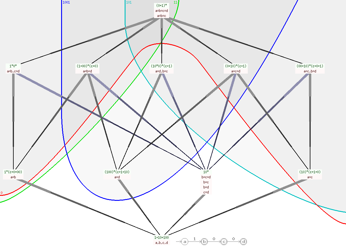 Shows the partially ordered set of automata accepting the strings 1, 10, and 100 (positive examples). Each automaton is obtained by factoring the trivial undergeneralization (bottom node; there also sketched as automaton) with respect to the equivalence shown in grey, and is denoted as an equivalent regular expression. For each of the negative examples 11, 1001, 101, and 0, the upper set of automata accepting it is shown. For the leftmost branch, automaton images are available at File:Quotient automaton a,b,c,d.gif (1+10+100), File:Quotient automaton a=b,c,d.gif (1*+1*0+1*00), File:Quotient automaton a=b,c=d.gif (1*0*), and File:Quotient automaton a=b=c=d.gif (0+1)*. According to Dupont et al., 1994 the automata form a lattice. This is true when two automata are considered equal iff they are obtained as quotient by the same equivalence, the lattice being trivially isomorphic to that of all state set partitions (see e.g. File:Lattice of partitions of an order 4 set.svg). However, it is false when when two automata are considered equal iff they accept the same language, as the current picture shows: the a=b and the b=c=d automaton have two upper bounds, viz. the a=b,c=d and the a=b=d automaton, but no least one. For those automata pairs that have a join or meet, these operations needn't coincide with language union or intersection, respectively. For example, the string 1101 is neither accepted by the a=b=d nor by the a=c=d automaton, while their join, a=b=c=d accepts it. Dually, the empty string is accepted by both the a=b and the a=d automaton, but not by their meet a,b,c,d.